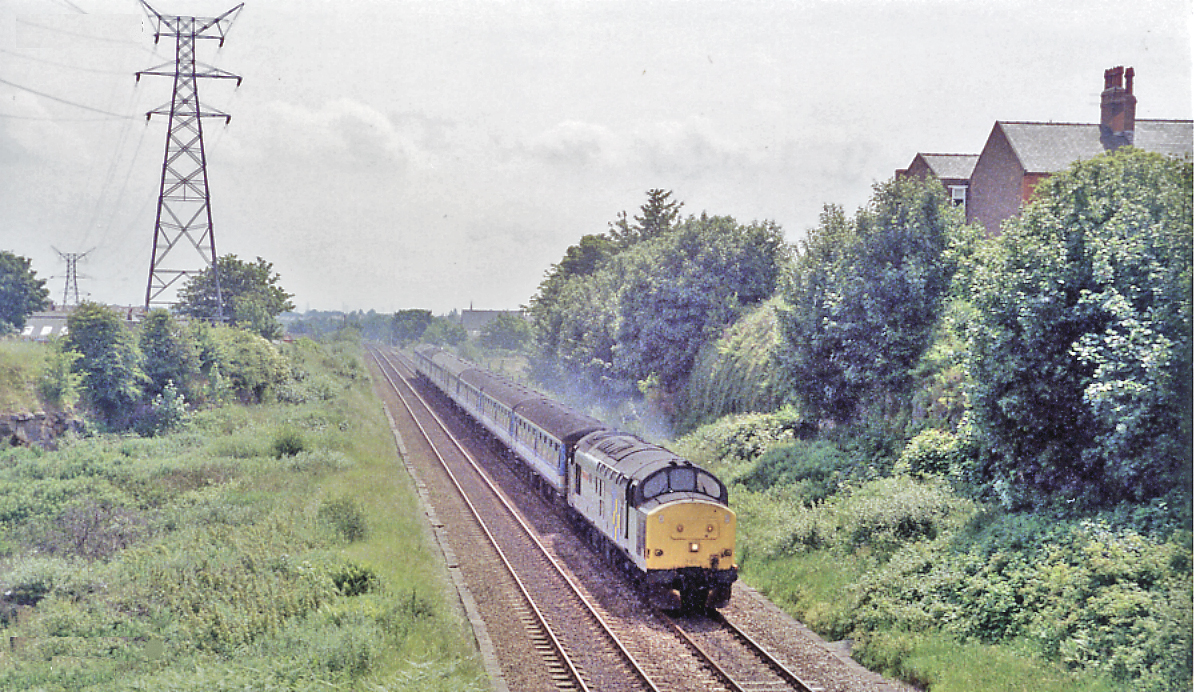 Eastward on Chester - Holyhead main line near site of Connah's Quay station, 1994. This view is looking in the opposite direction - i.e. towards Chester, to that in SJ2870 : Chester - Holyhead main line west of site of Connah's Quay station. The same misgivings about the location apply, although the direction and angle of the high-tension electricity transmission pylons support my tentative location. I labelled the photographs at the time as 'Connah's Quay', and I tentatively conclude that the station (closed 14/2/66) would have been just behind the train approaching with a Class 37 Diesel.